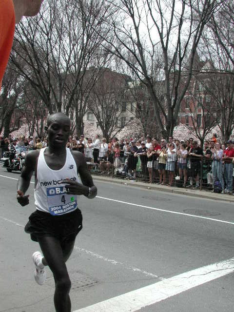 Timothy Cherigat The photo was taken by Jim Rhoades at . As a frequent contributing photographer to Jim Rhoades' site, I know that they freely release all photos onto the public domain as long as the name of the photographer is credited as it says on the main page of the website. This website does not charge for photos